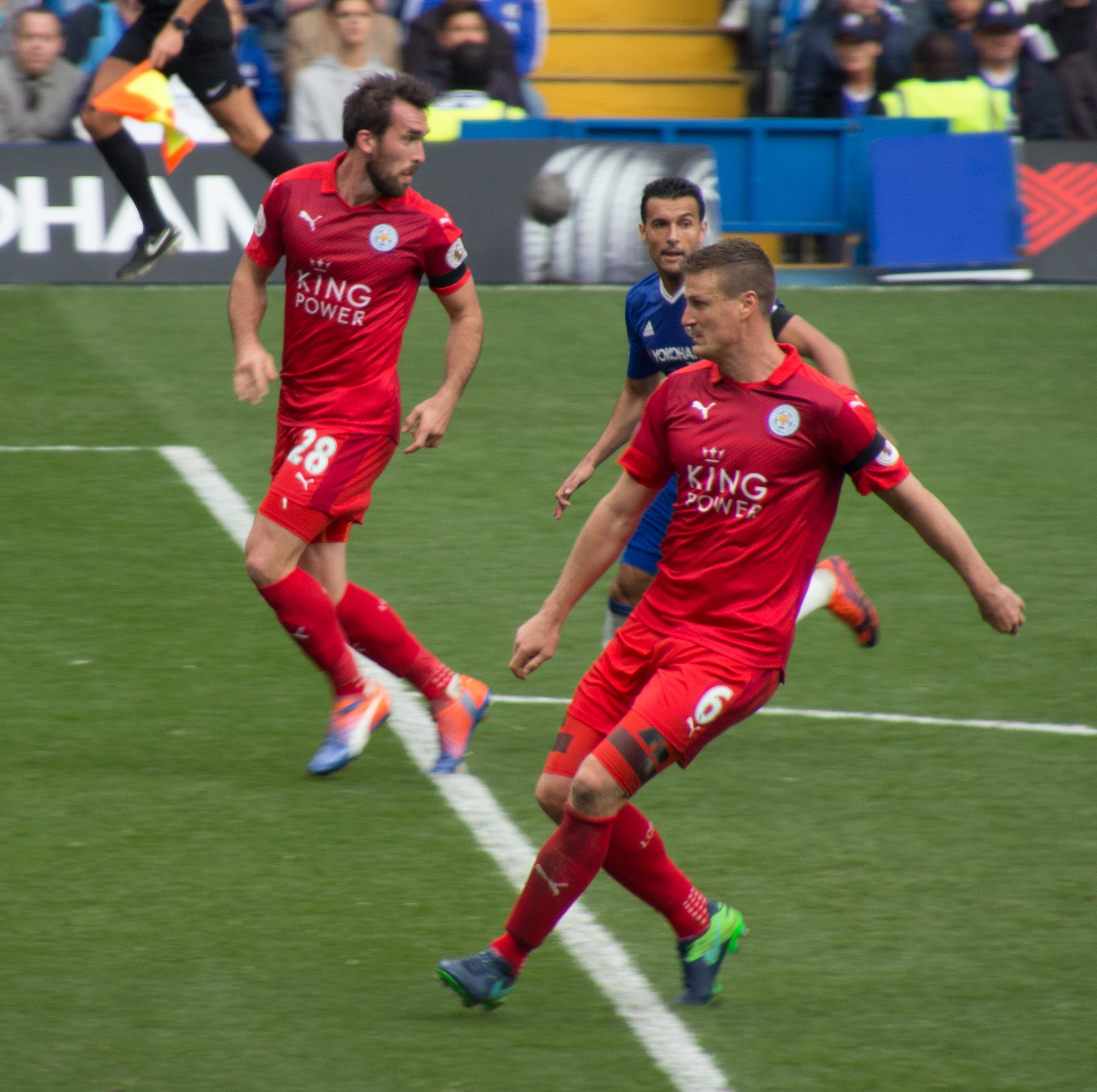 Chelsea 3 Leicester 0 15.10.16